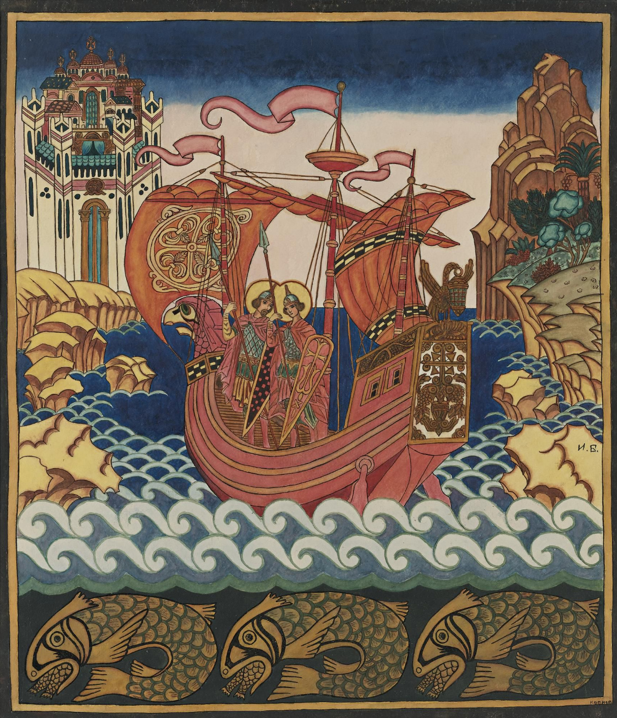 Saint Boris and Gleb